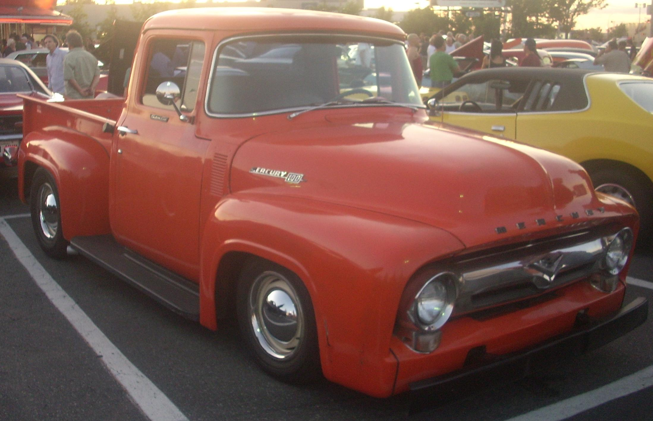 Mercury pickup photographed in Montreal, Quebec, Canada at Gibeau Orange Julep.